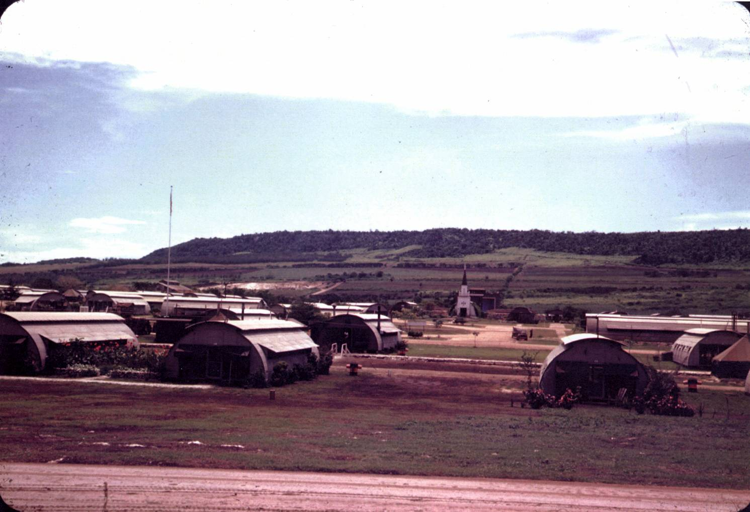 Headquarters of the 509th Composite Group on Tinian Island in 1945.